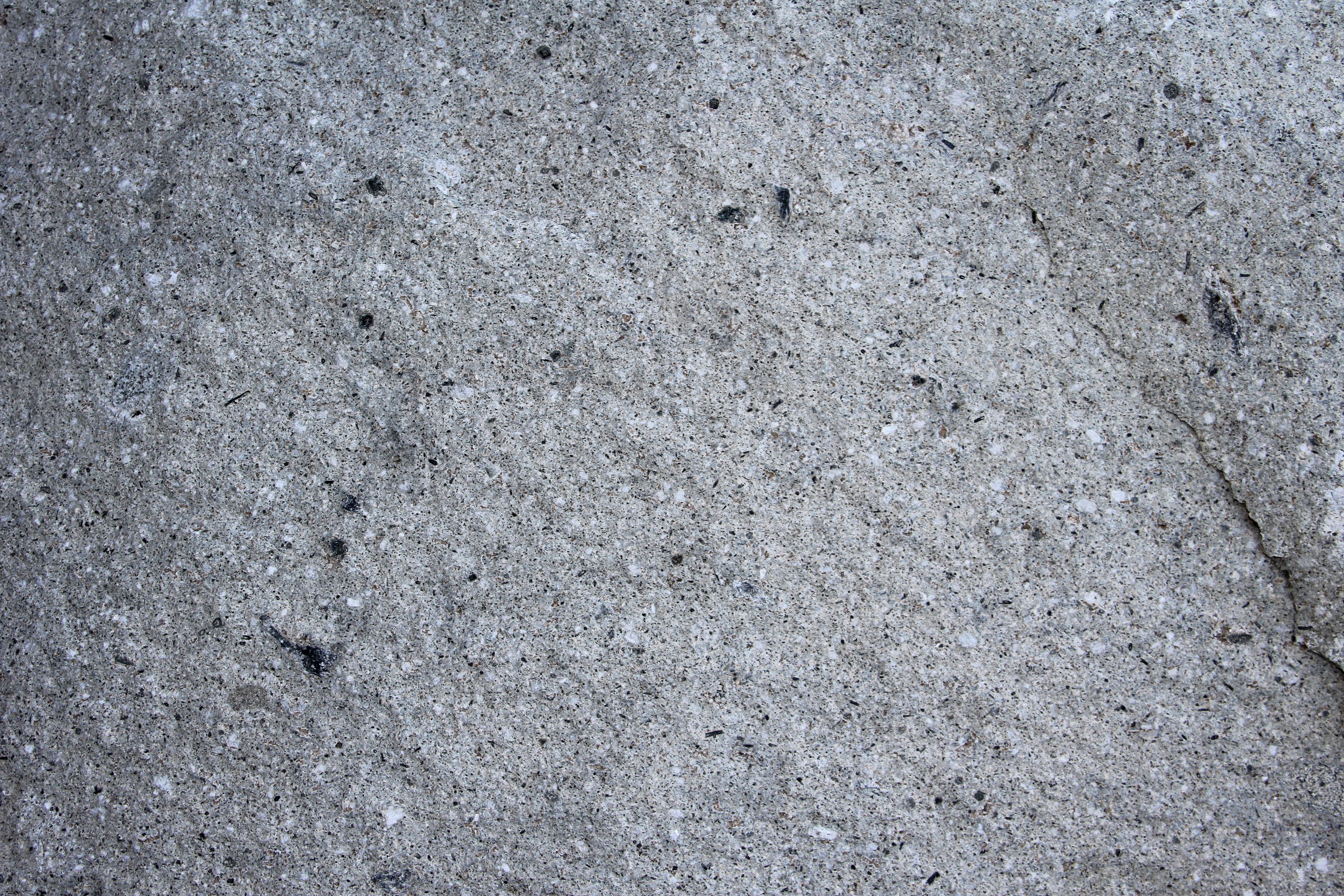 Quarry Mokro polje in the village of Donja Vrbava near Gornji Milanovac, Serbia.